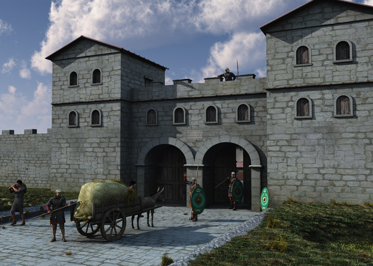 View of the gatehouse